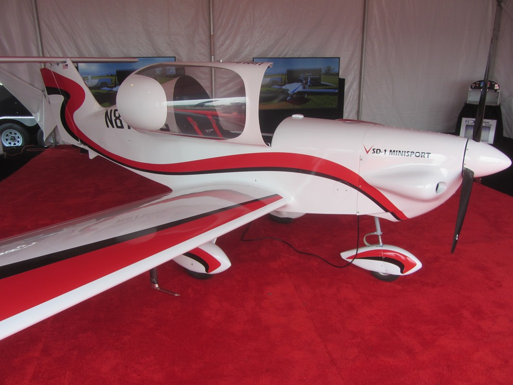 SD-1 Minisport